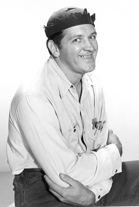 Mayberry RFD Original CBS TV Network Photo. AIR DATE: 5/18/70 PICTURED: George Lindsey